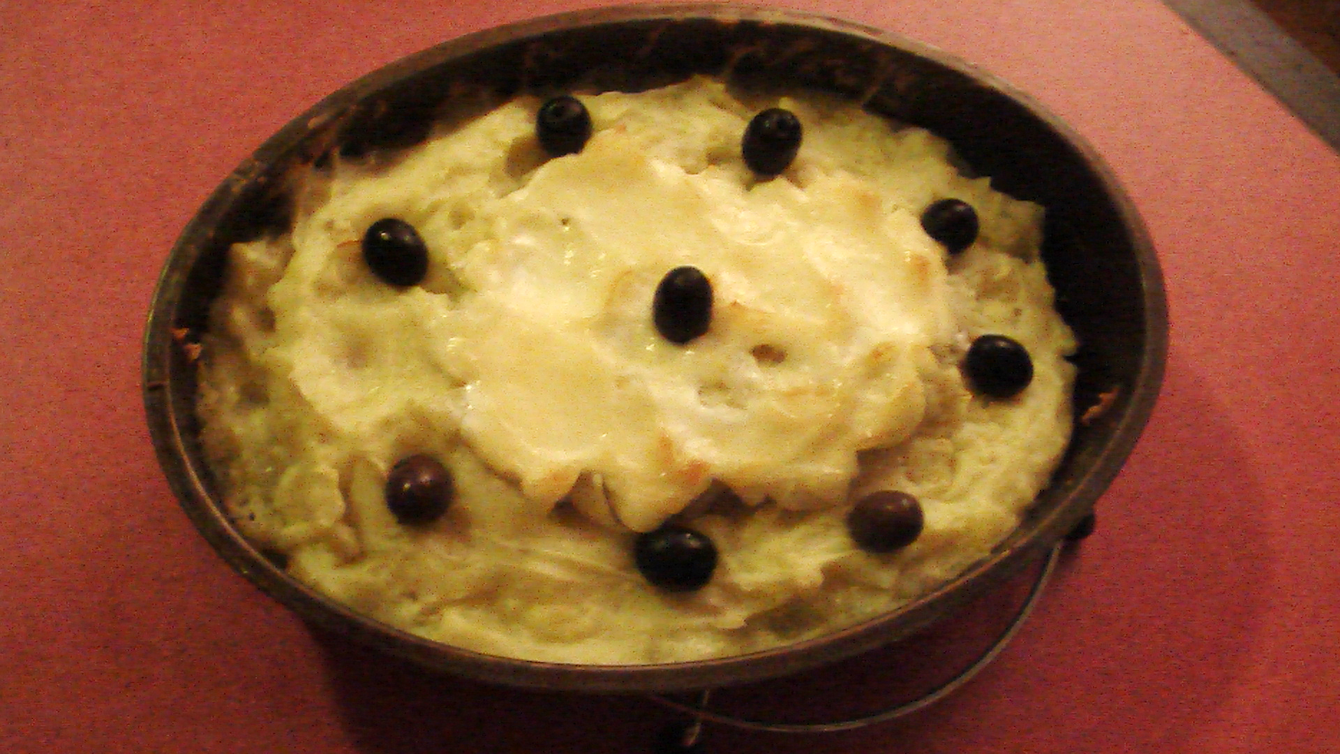 Photography of Bacalhau à Zé do Pipo, a Portuguese dish